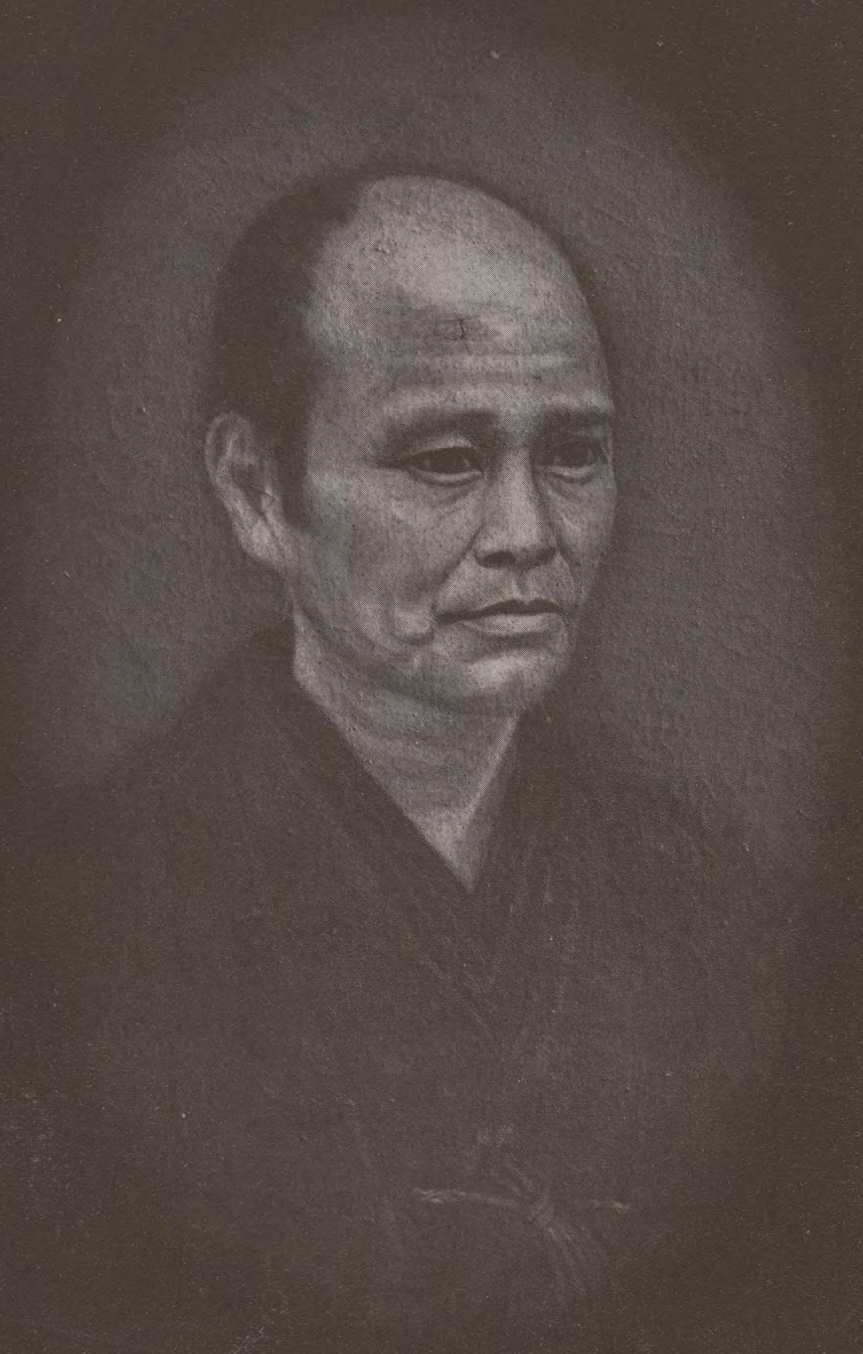 Shimazu Genzō I, a Japanese businessman.